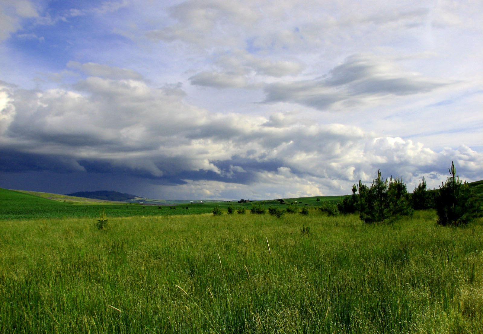 taken a few miles north of Moscow, Idaho.